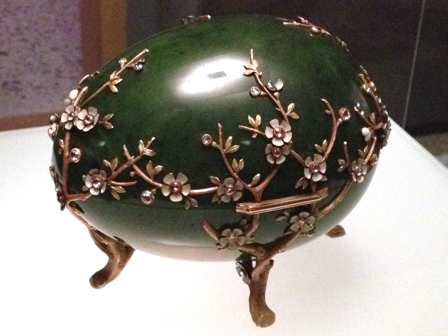 Apple Blossom Egg, by Carl Fabergé. Master stamp by Michael Evlampievich Perchin. St. Petersburg, 1901. Gold, diamonds, nephrite.